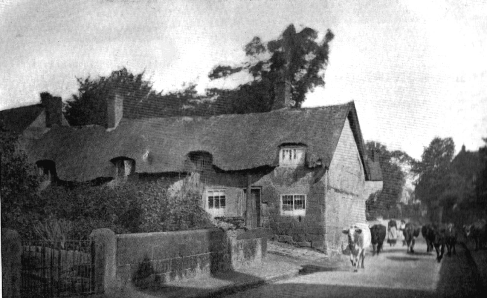 Cottages on the site of the present Church Hall